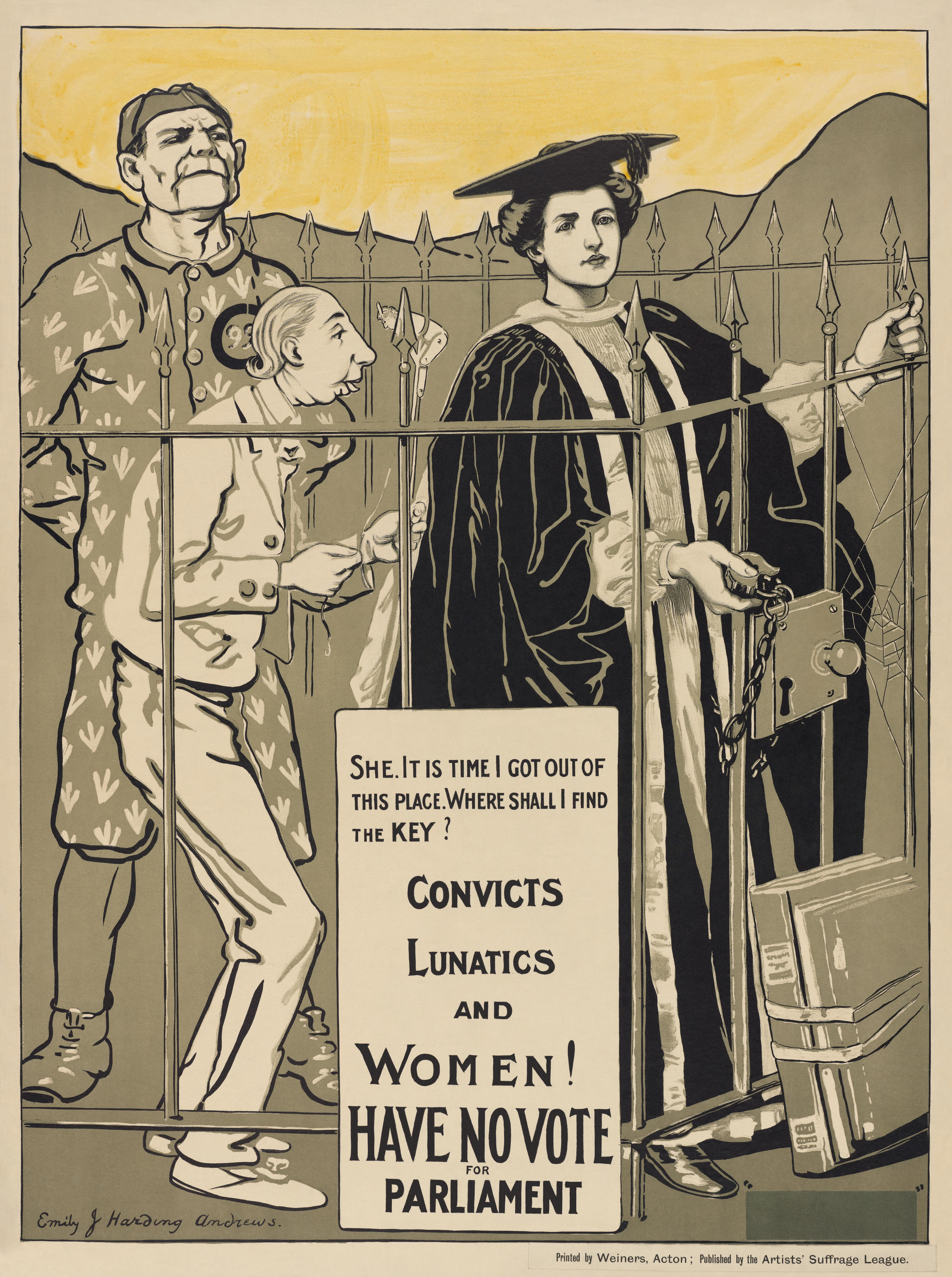 She. It is time I got out of this place. Where Shall I Find The Key? Convicts Lunatics and Women! Have No Vote for Parliament, ca. 1907-1918. Catalog Record: Questions?